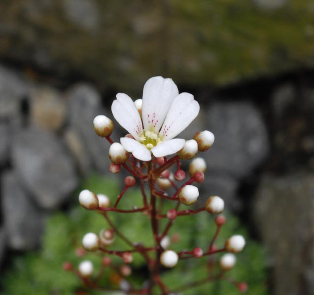 Saxifraga cochlearis 'Minor'